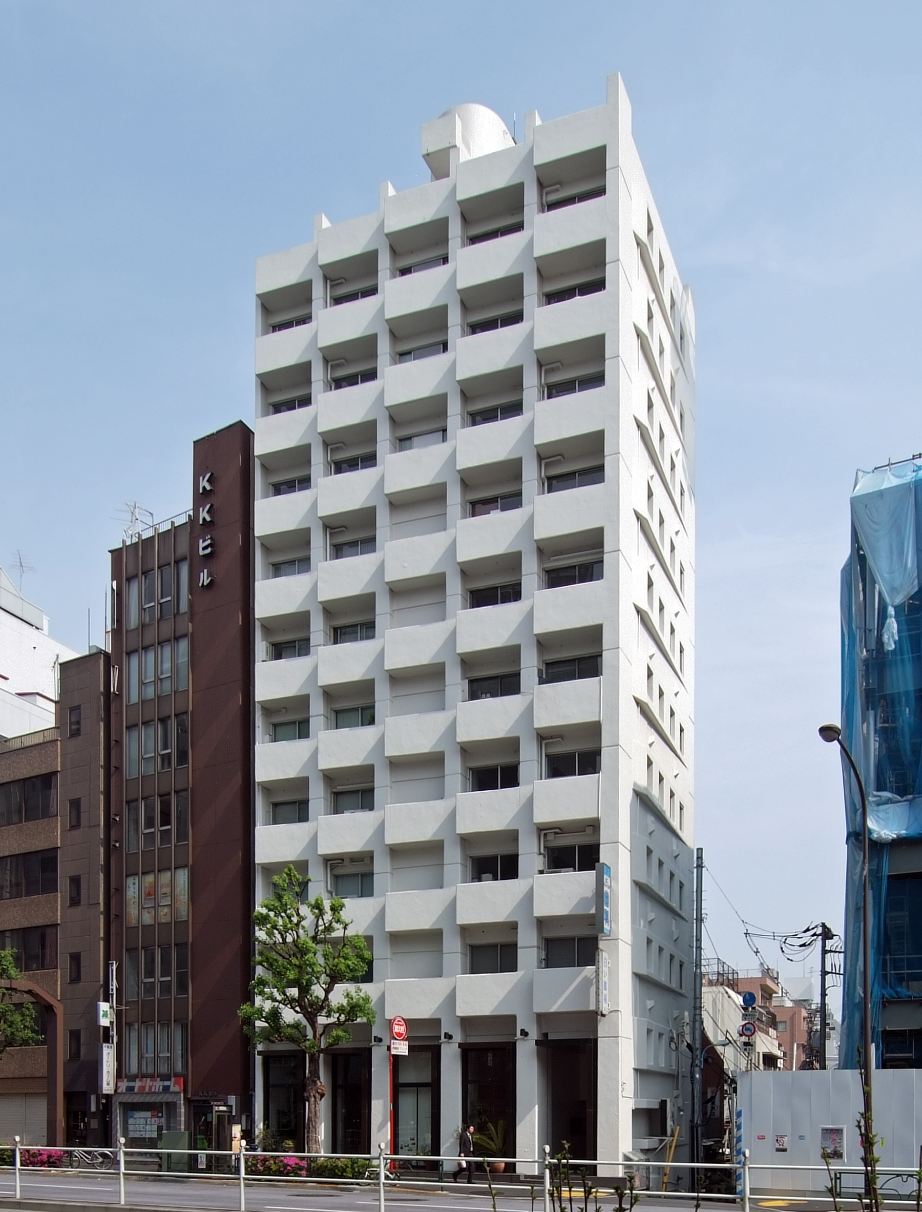 New Sky Building #2, at Shinjyuku-ku Tokyo Japan, design by Yoji Watanabe.